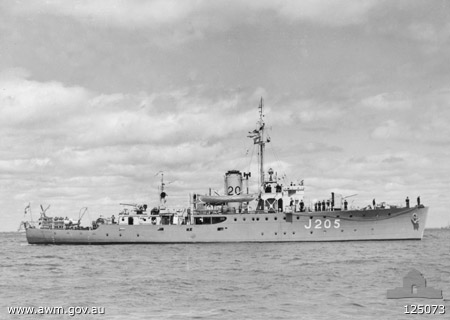 Photograph showing starboard side of Australian corvette HMAS Townsville (J205), at Melbourne.